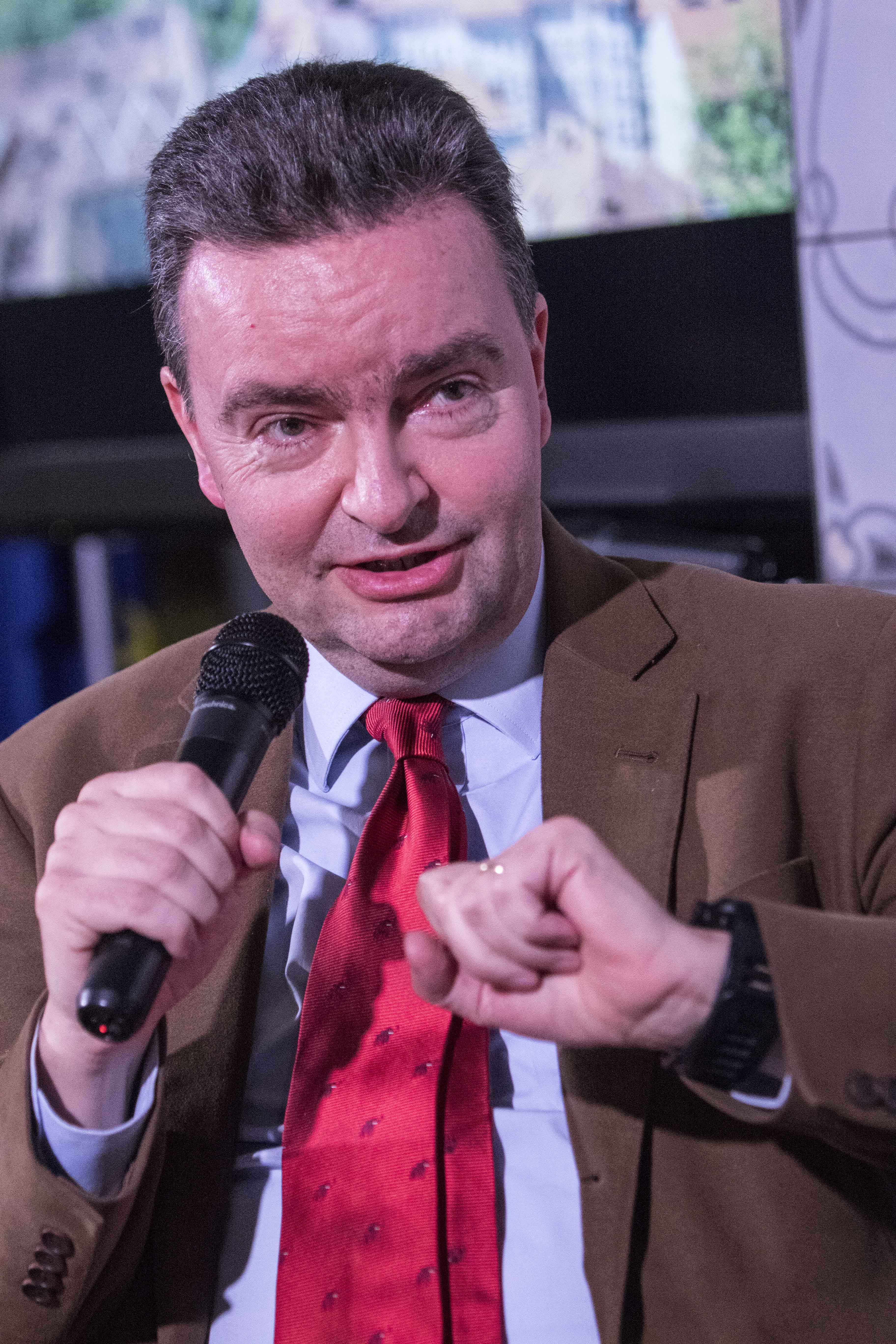 Georg von Habsburg in March 2017